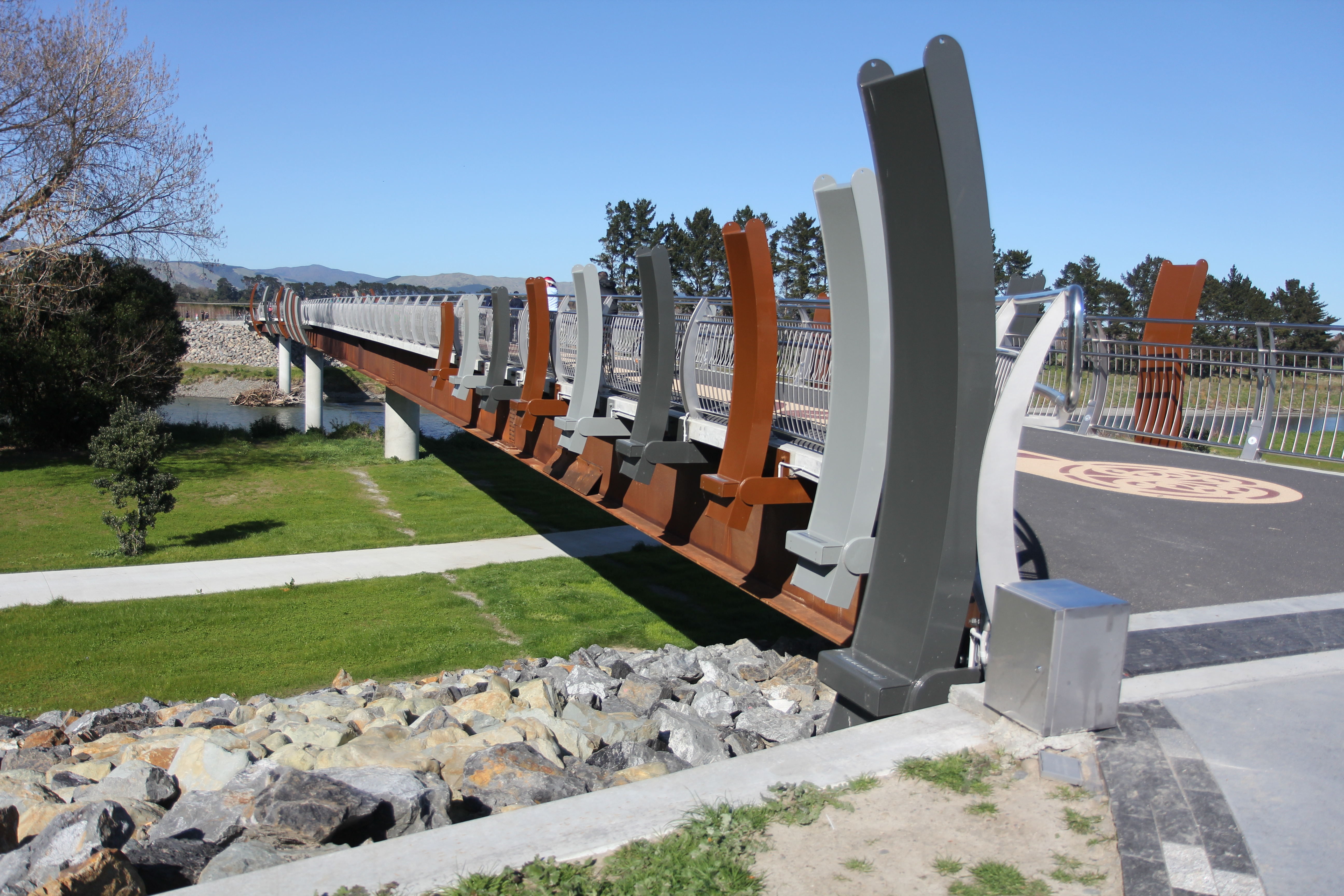 He Ara Kotahi Bridge, a pedestrian and cycle bridge across the Manawatu River in Palmerston North, New Zealand. Side view.